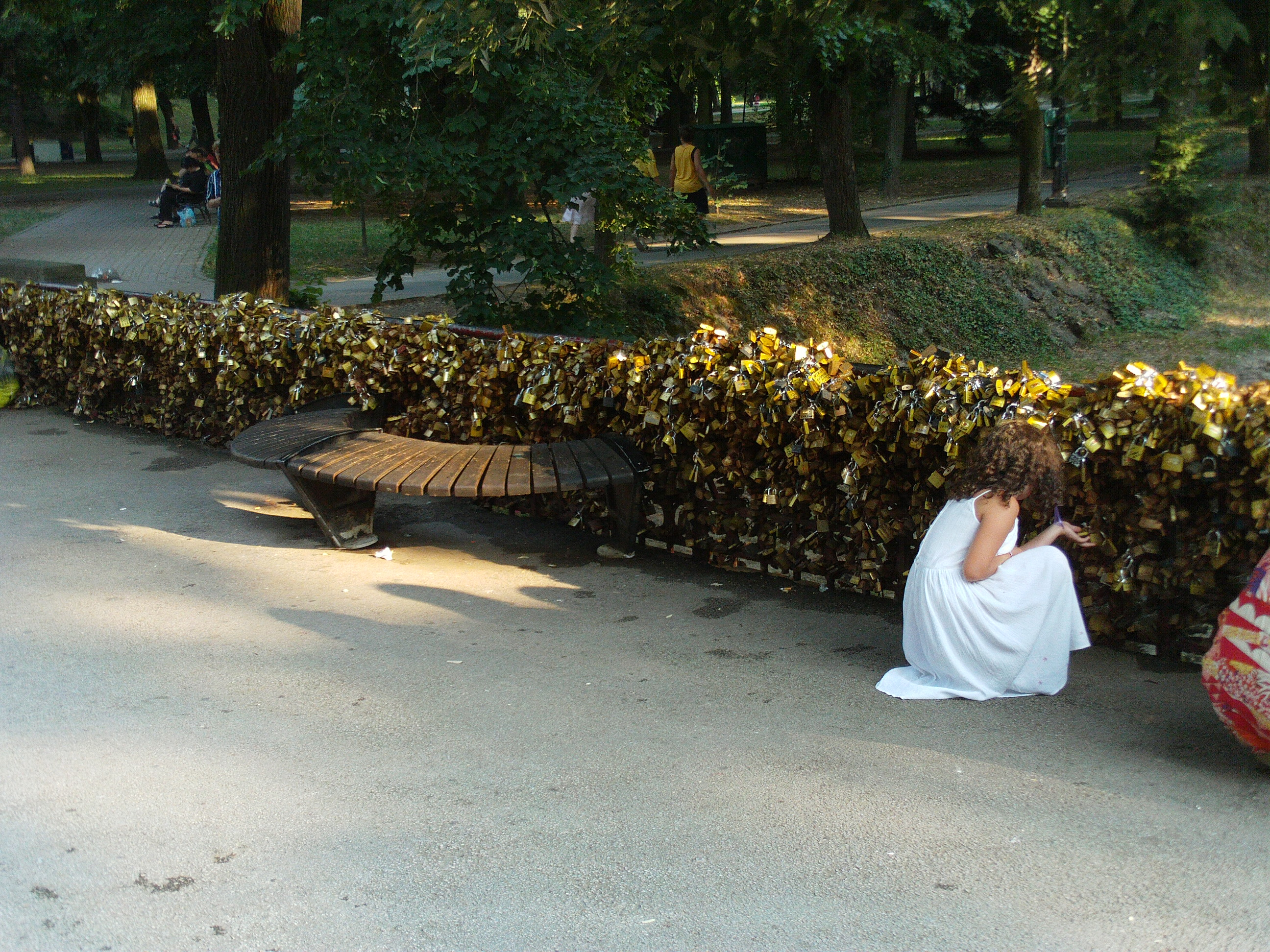 Most Ljubavi, Vrnjačka Banja, Serbia. Railing